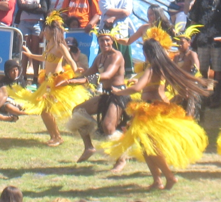 Dancers at the Cook Islands stage at Auckland's 2010 Pacifica festival.